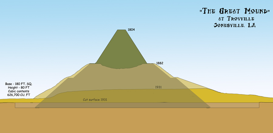 An artists conception of the "Great Mound" at the Troyville Earthworks, (16 CT 7), the type site for the Troyville culture in Catahoula Parish, Louisiana. Illustration shows the height and original profile and successive heights and profiles as the mound was dismantled in stages over a 130 year period between the early 1800s and the 1930s.[1]